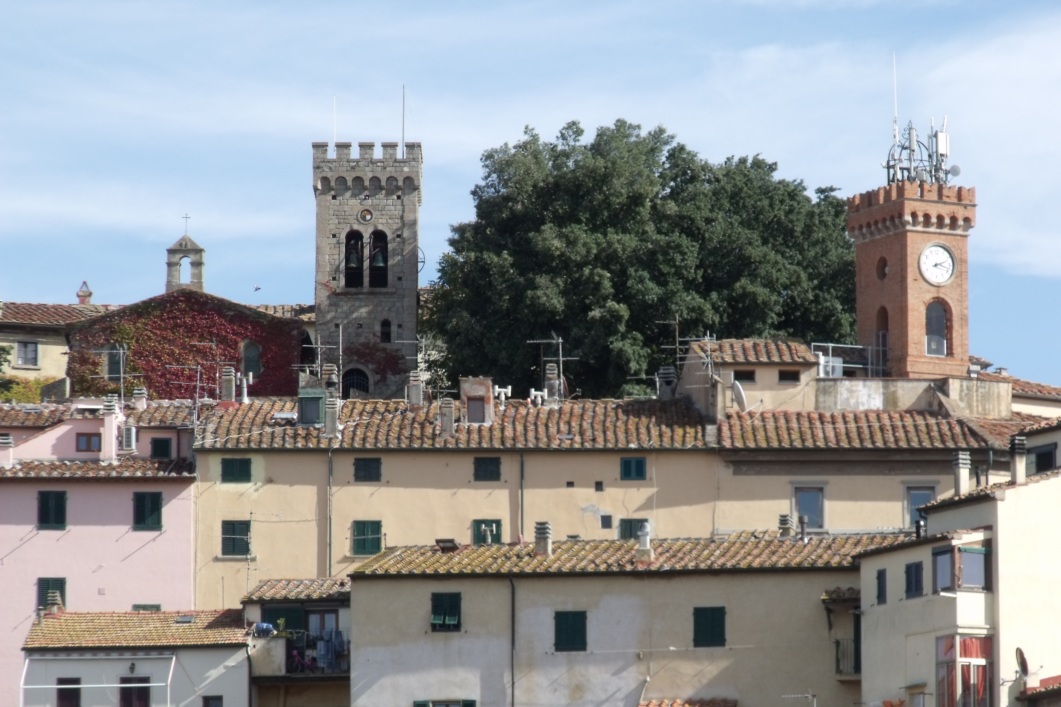 Panorama of Castagneto Carducci with the Propositura di San Lorenzo (left) and the town hall clock tower, Province of Livorno, Tuscany, Italy